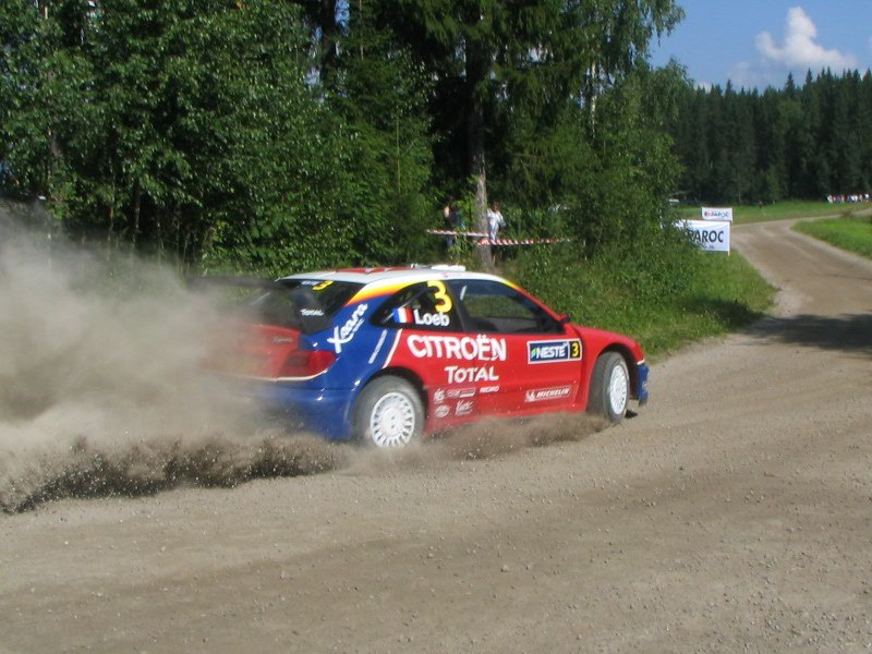 Sébastien Loeb driving his Citroën Xsara WRC at the 2004 Rally Finland.